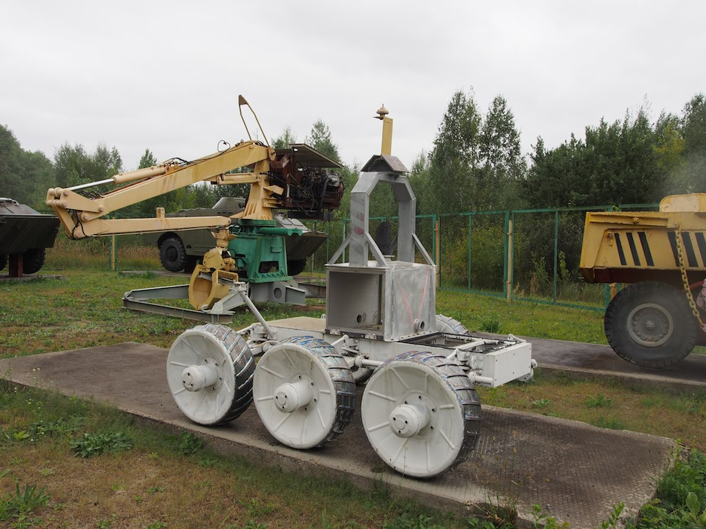 Radiation levels just after the disaster were so high that human workers were unable to work longer than 40 seconds so these robots were developed to try and do the hub. For the most part they simply weren't up to it. The high radiation levels destroyed the electronic parts very quickly, so the human Liquidators were sent back in. Most of the robots are still very radioactive 24 years on.